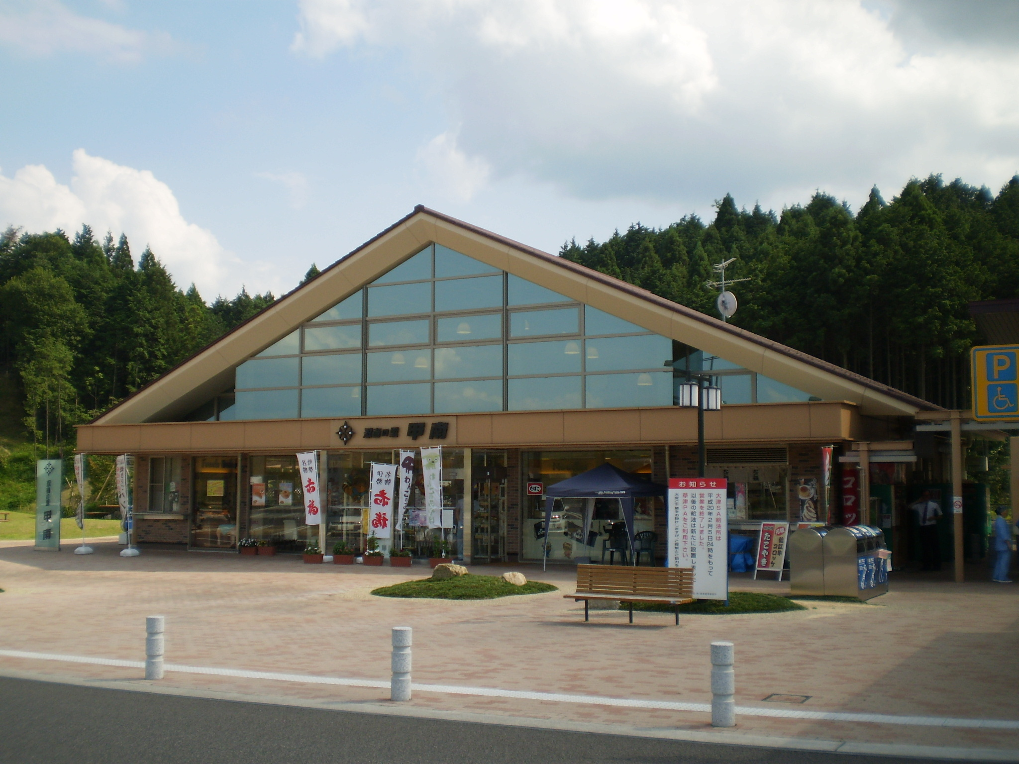 Konan Parking Area in Koka City, Shiga Prefecture, Japan